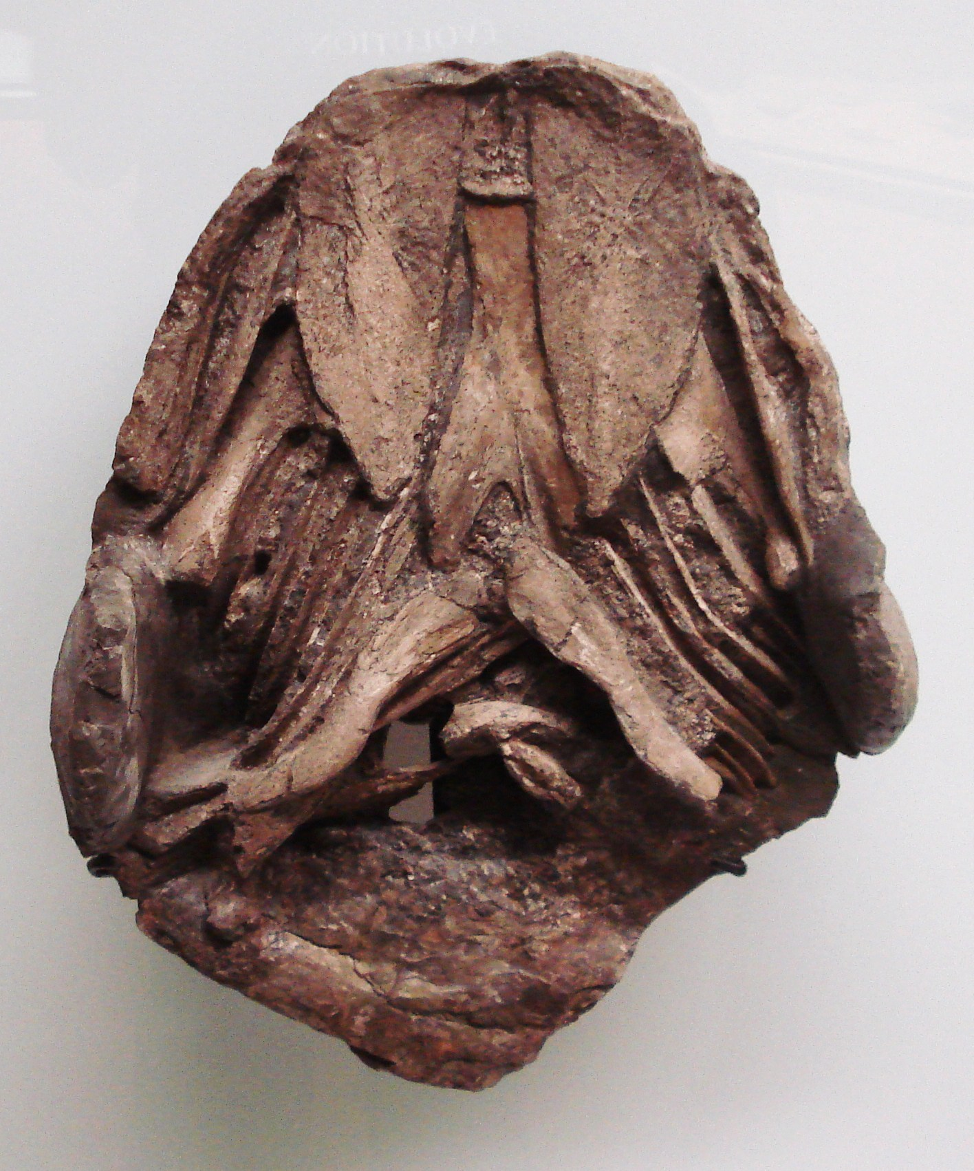 fossil of trachymetopon